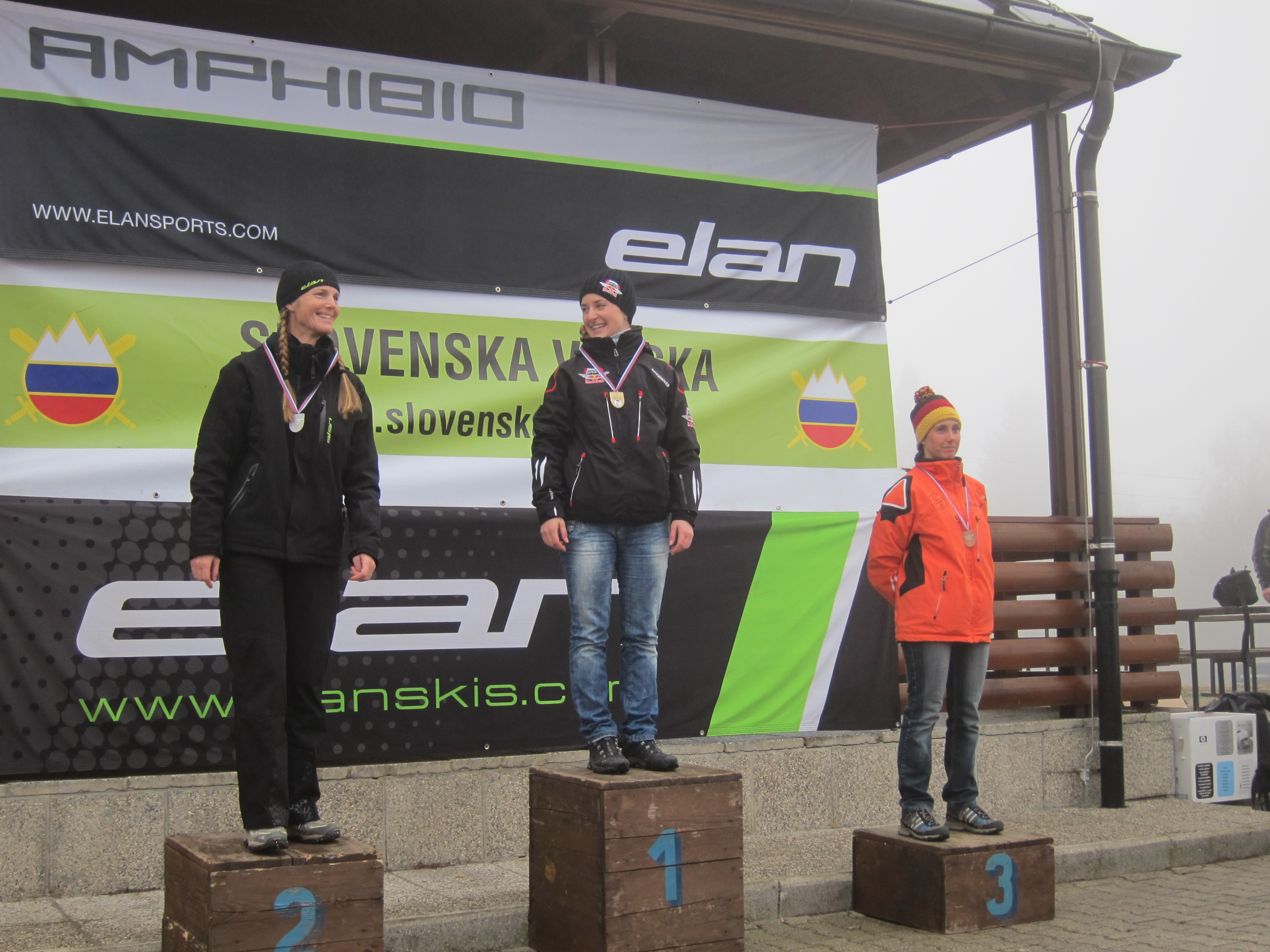 Winners Women Paraski EC Kobla 2011